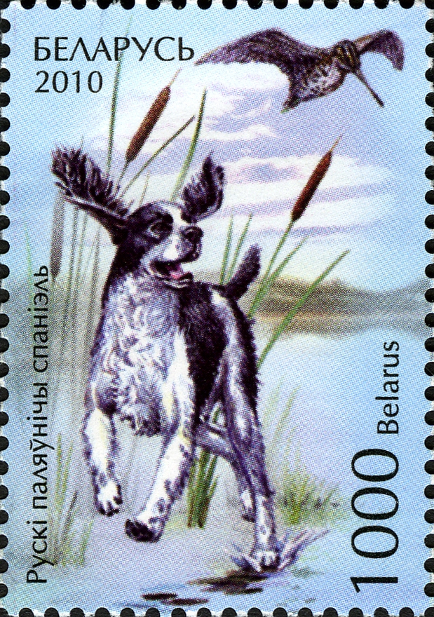 Stamp of Belarus